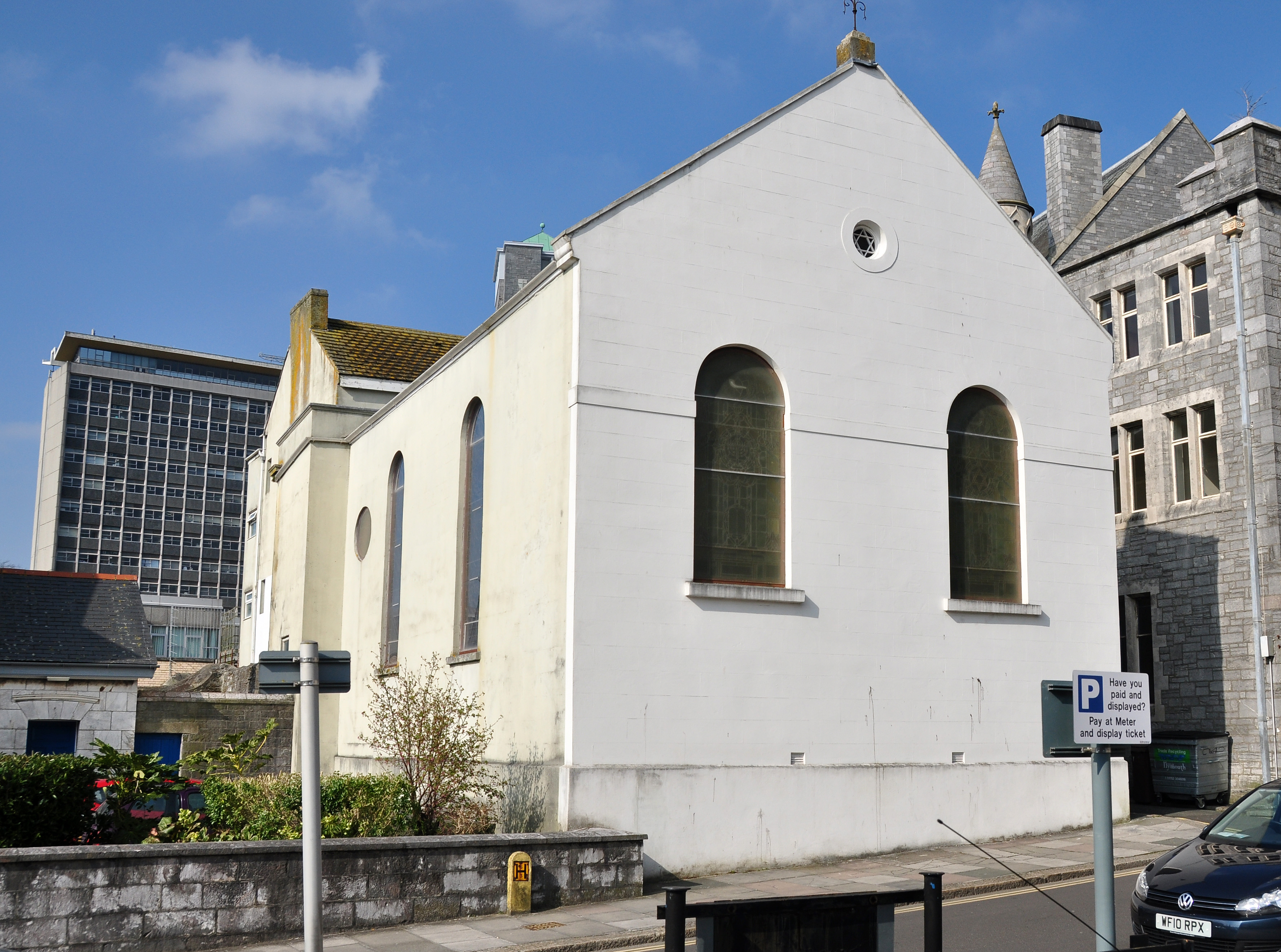 Synagogue, Catherine Street, Plymouth, Devon, seen from the southeast